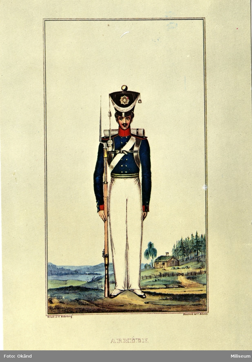 Swedish military uniform 1816